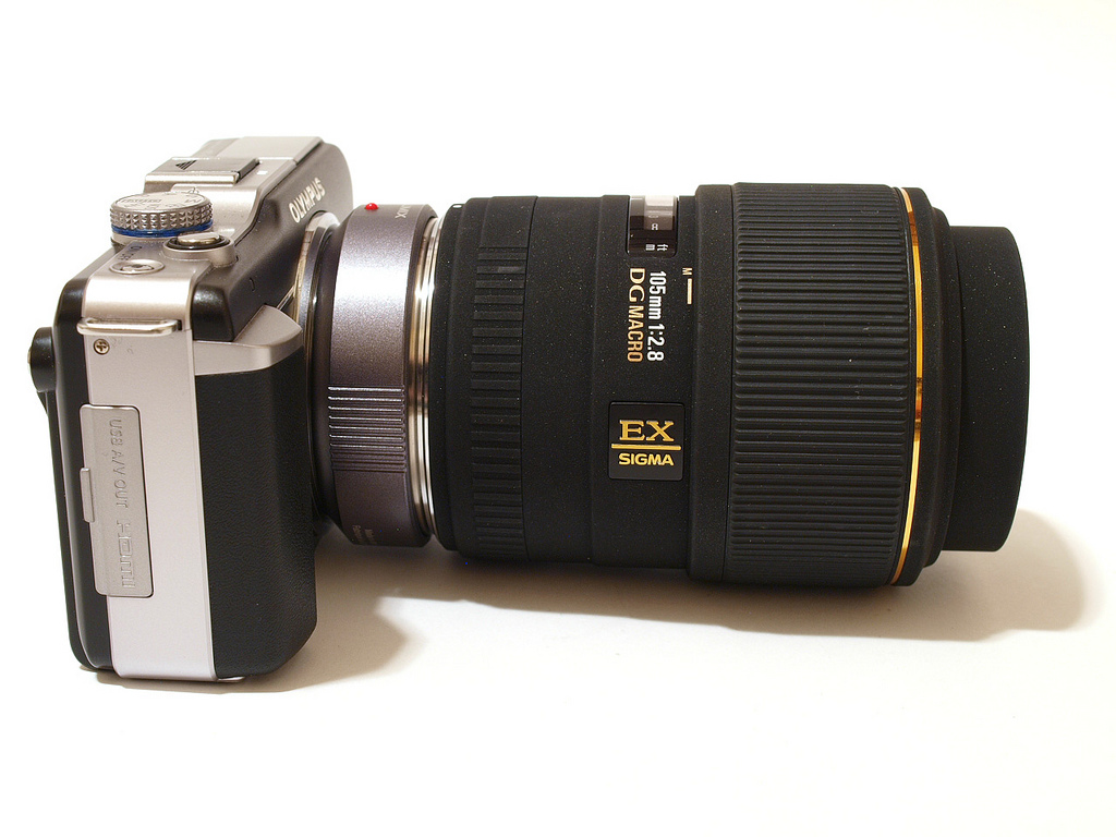 Olympus E-PL1 mirrorless interchangeable lens camera with Sigma 105mm F2.8 EX DG APO Macro lens for 4/3 DSLR cameras attached via DMW-MA1 adapter.